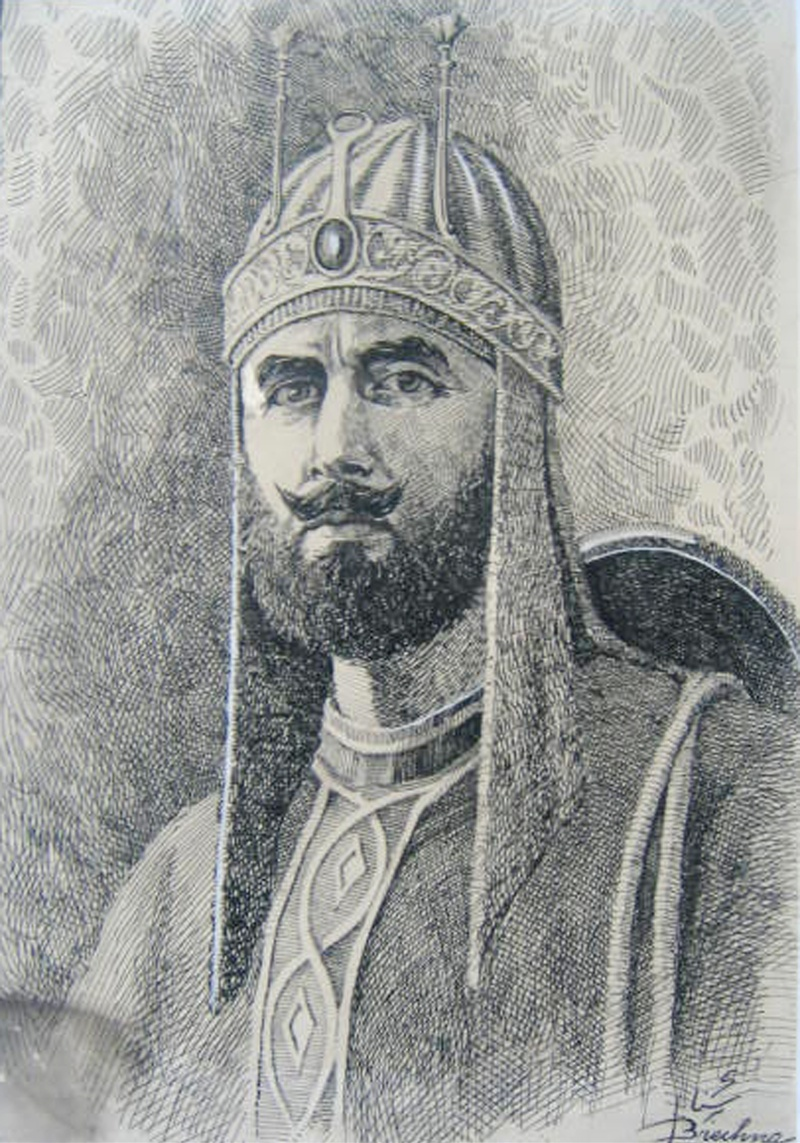 Sher Shah Suri, founder of the Sur Empire in northern India in the 16th century. He defeated the powerful Mughal Empire under Humayun but died 5 years later due to an accident while loading a cannon. He was an ethnic Afghan (now Pashtun) but was born in what is now India.